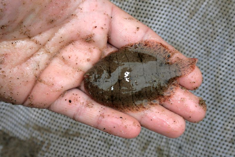 Hogchoker (Trinectes maculatus). Taken from the Sabine River, Texas, USA.